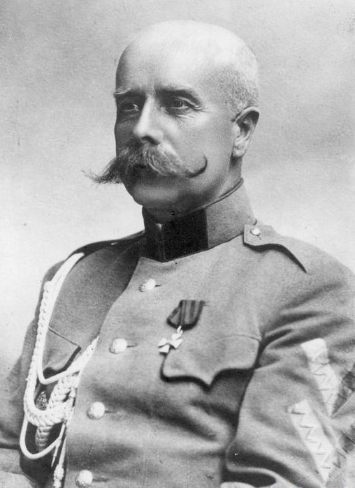 Eugeniusz de Henning-Michaelis (1863-1939), a Polish Major General